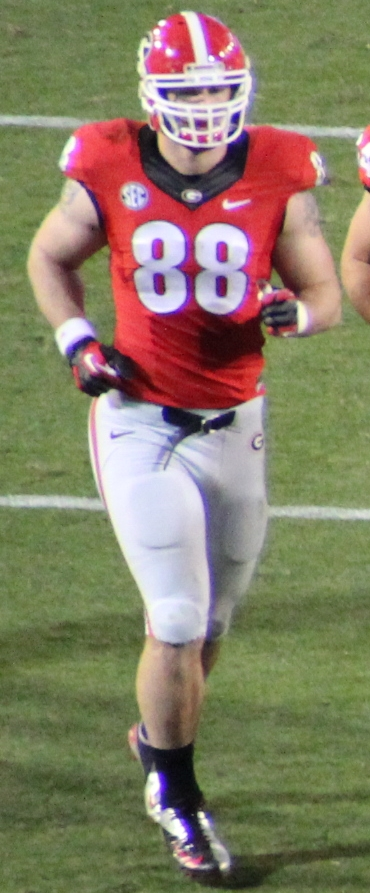 Arthur Lynch, 2013